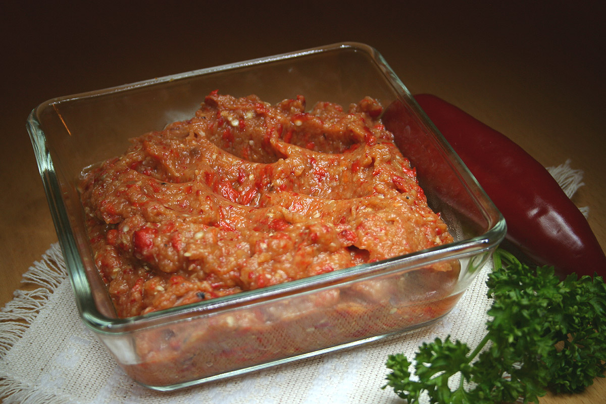 Кьопоолу Kyopoolu - Balkan relish made from red bell peppers, eggplant and garlic in its Bulgarian version.